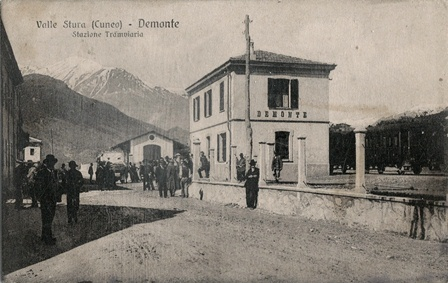 Demonte, tramway station